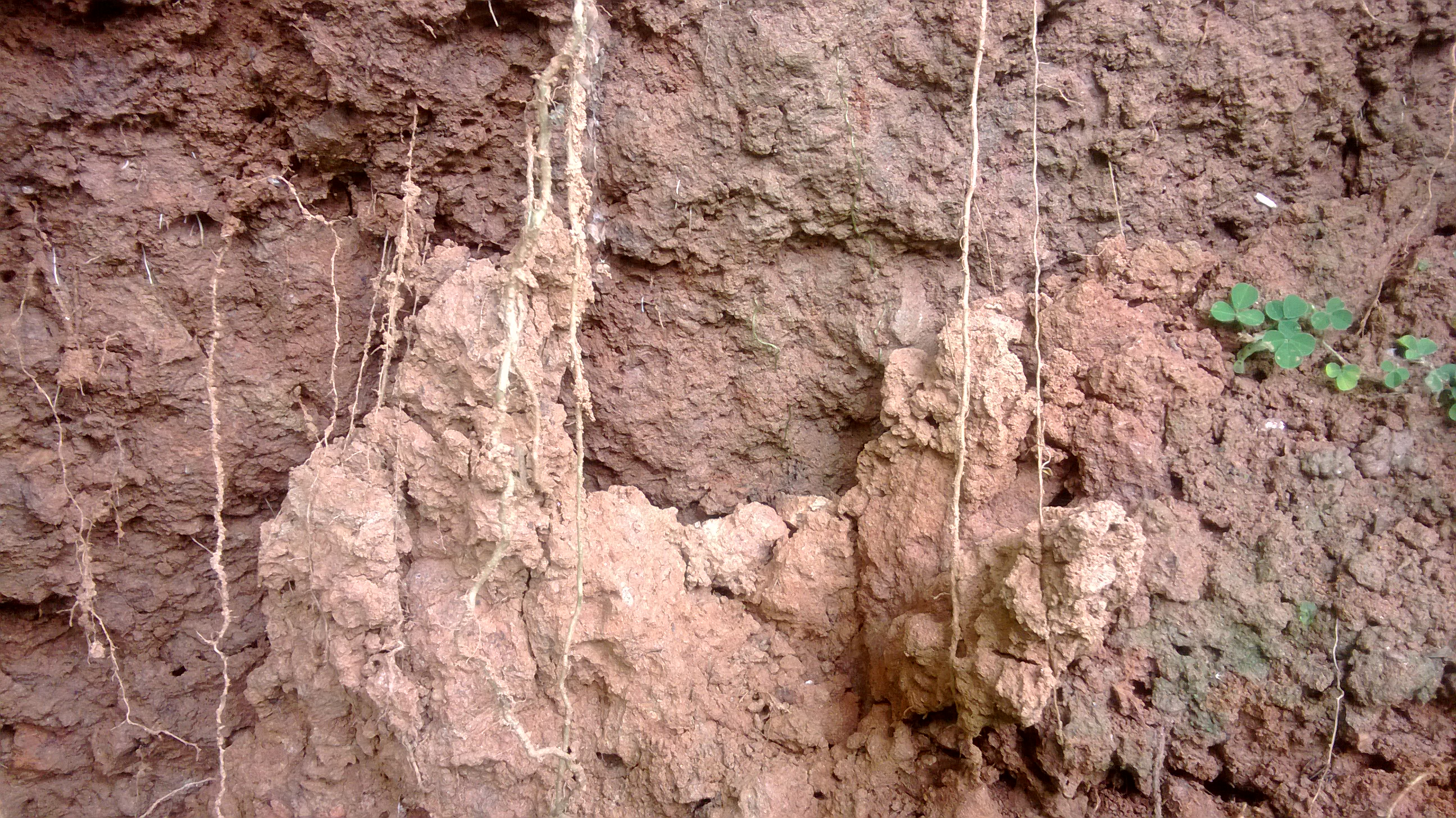 Clay Soil from Panchkhal Valley.